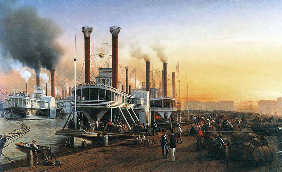 Giant Steamboats at New Orleans. Shows steamboats "Gipsy", "Grand Turk" and others at the Sugar Levee; the wharf is busy with stevedores.